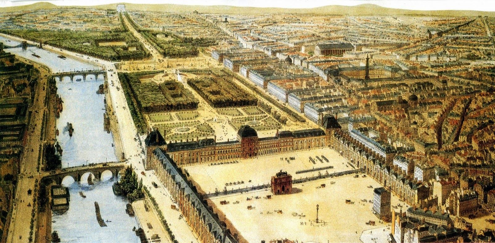 Tuileries-Paris 1848